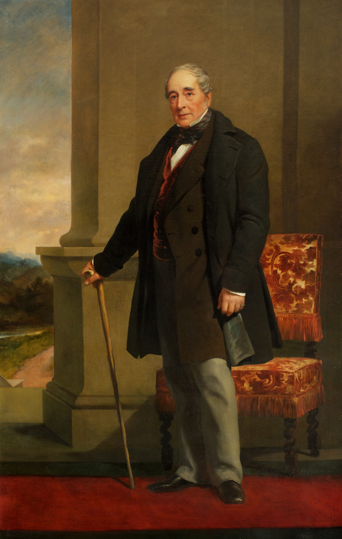 Portrait of Thomas Frankland Lewis, Welsh politician.